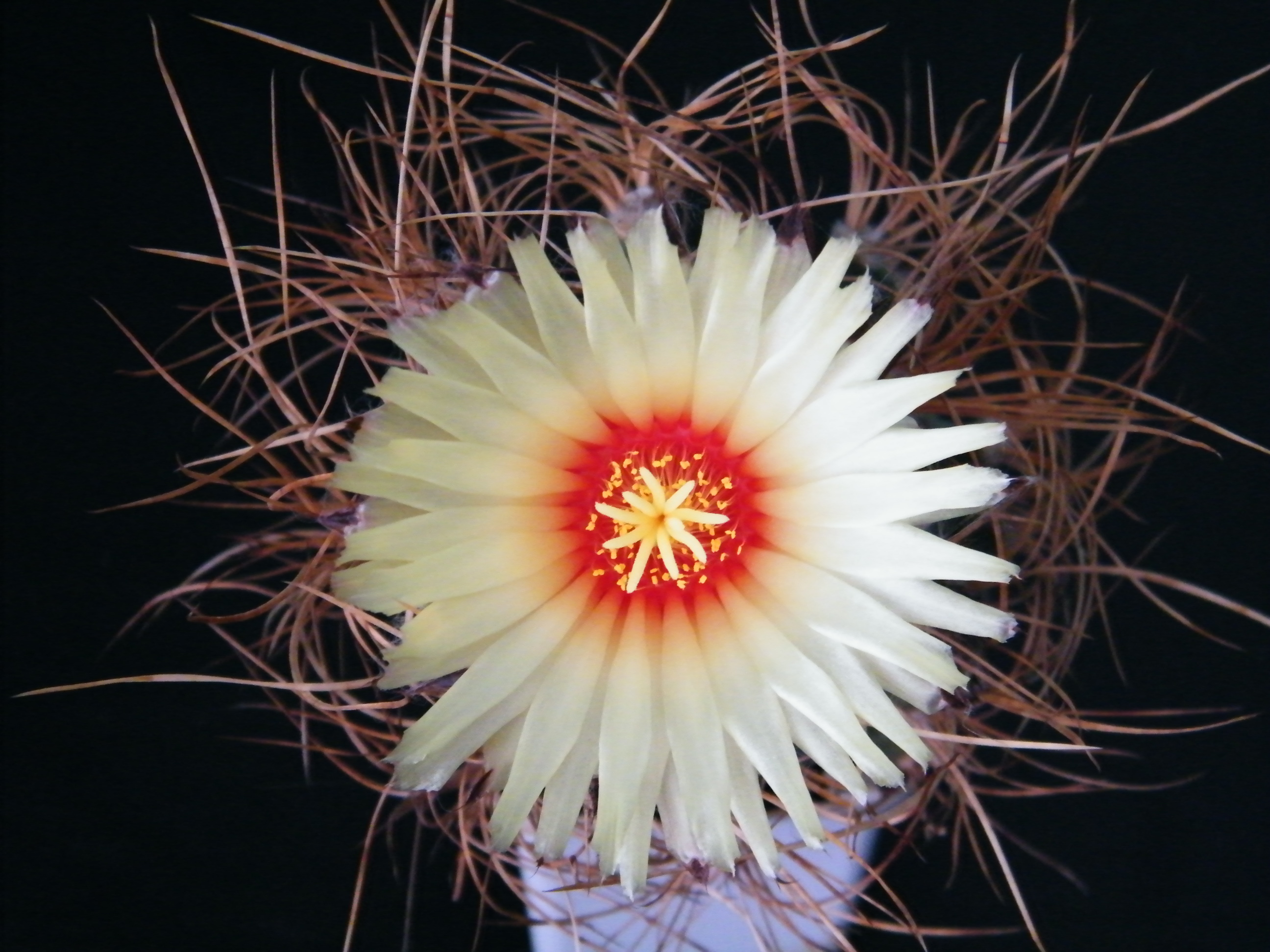 Astrophytum capricorne var. senile